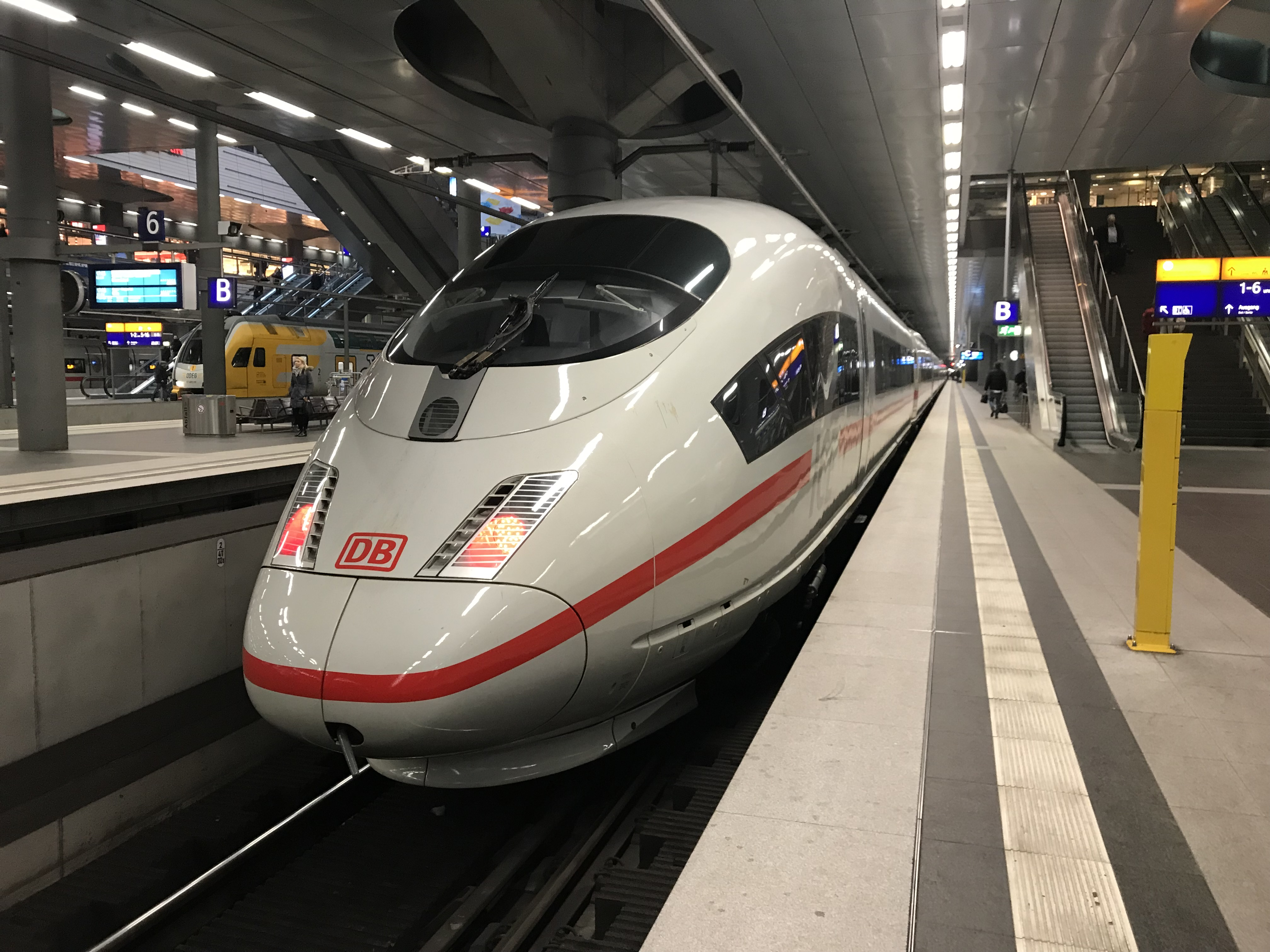 201803 ICE-1539 at Berlin Hbf. "Fake train" again...